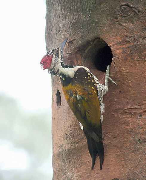 Black-rumped Flameback (Dinopium benghalense) in Kolkata, West Bengal, India.